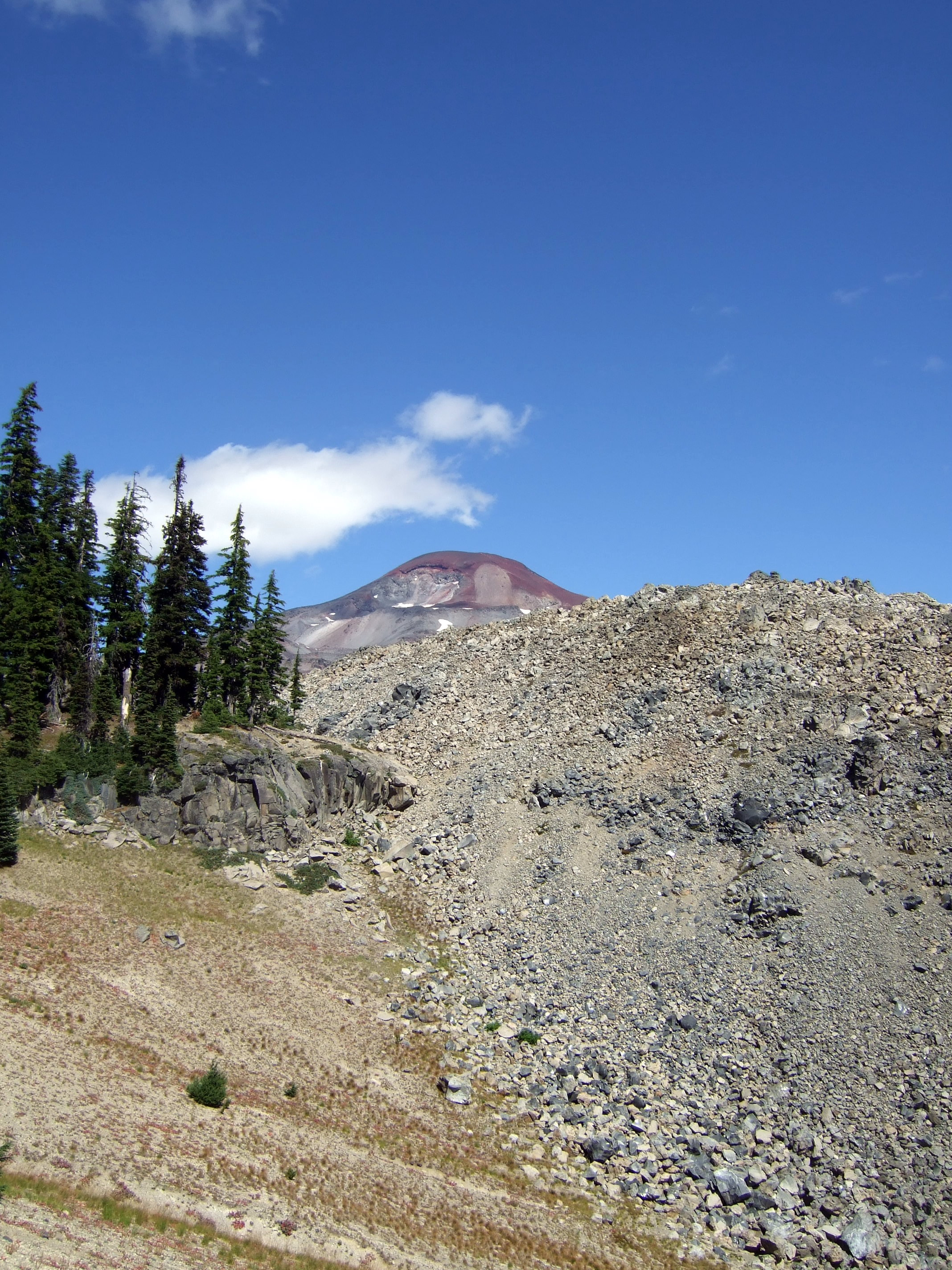 Rock Mesa in the Three Sisters Wilderness, Oregon, with South Sister in the backgroud.